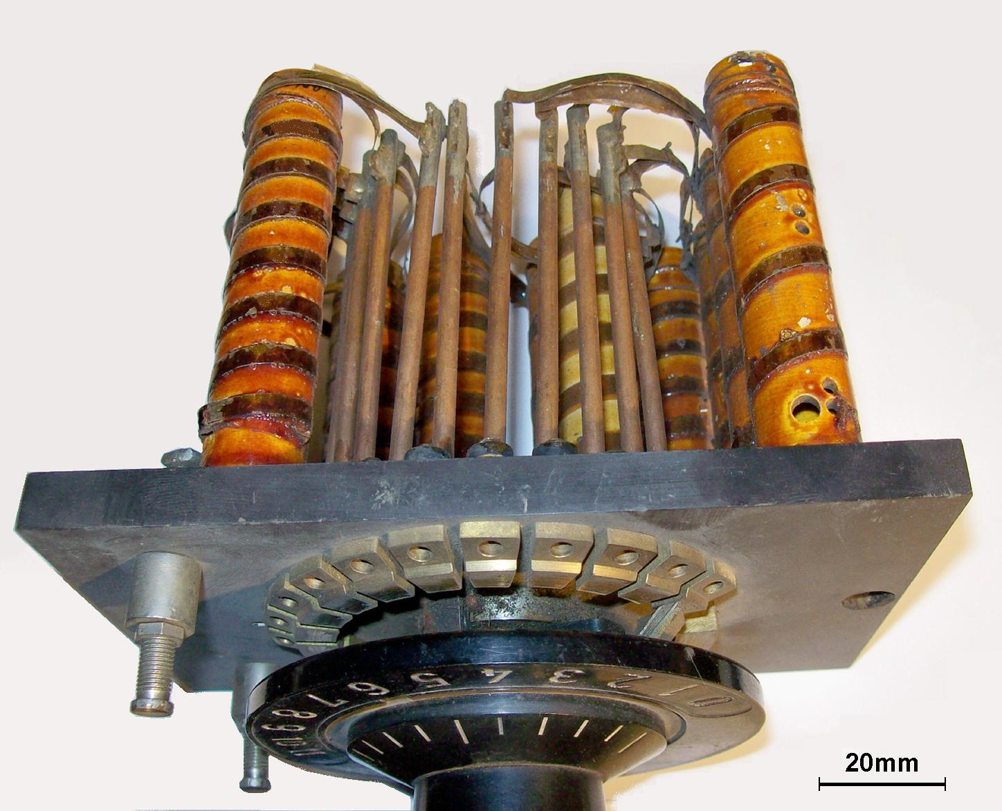 resistor decade made from 10 resistors each 1 Ohm, bifilar wounded tape